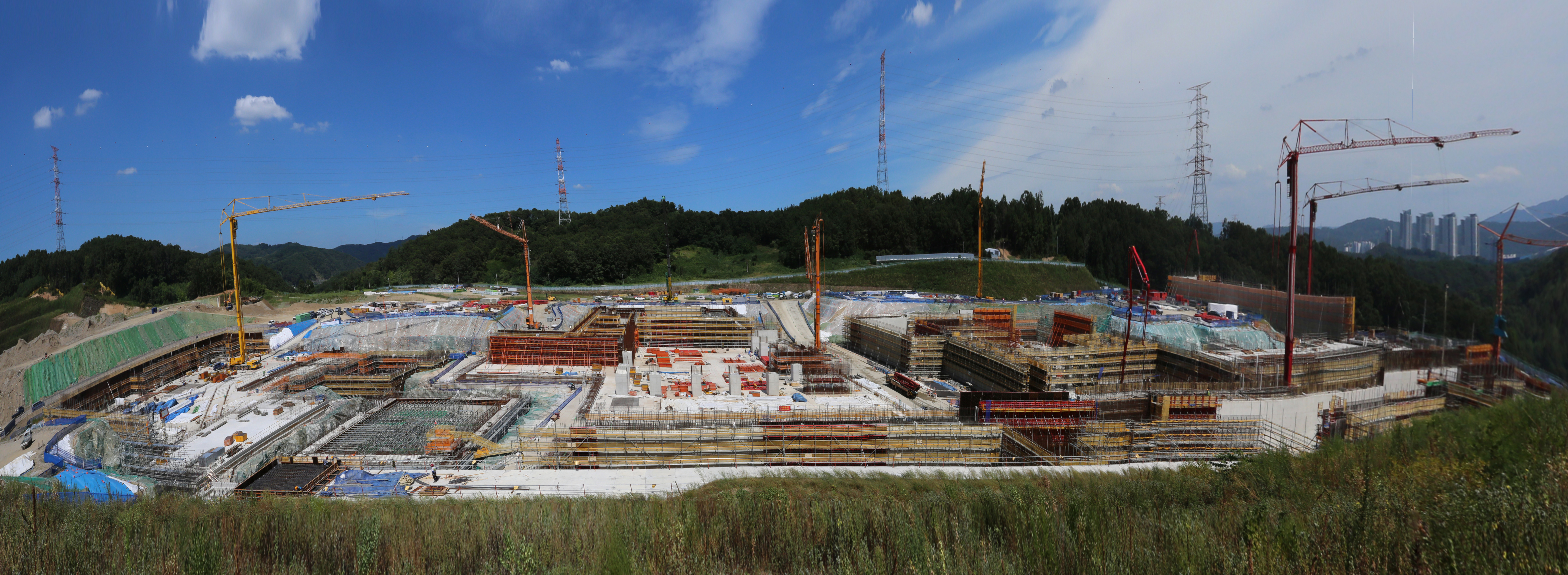 Construction of Rare Isotope Science Project (RISP)'s Rare Isotope Science Project (RAON) on 22 August 2018. The panorama image was created from multiple separate images and lines were straightened in Photoshop to best of my abilities.